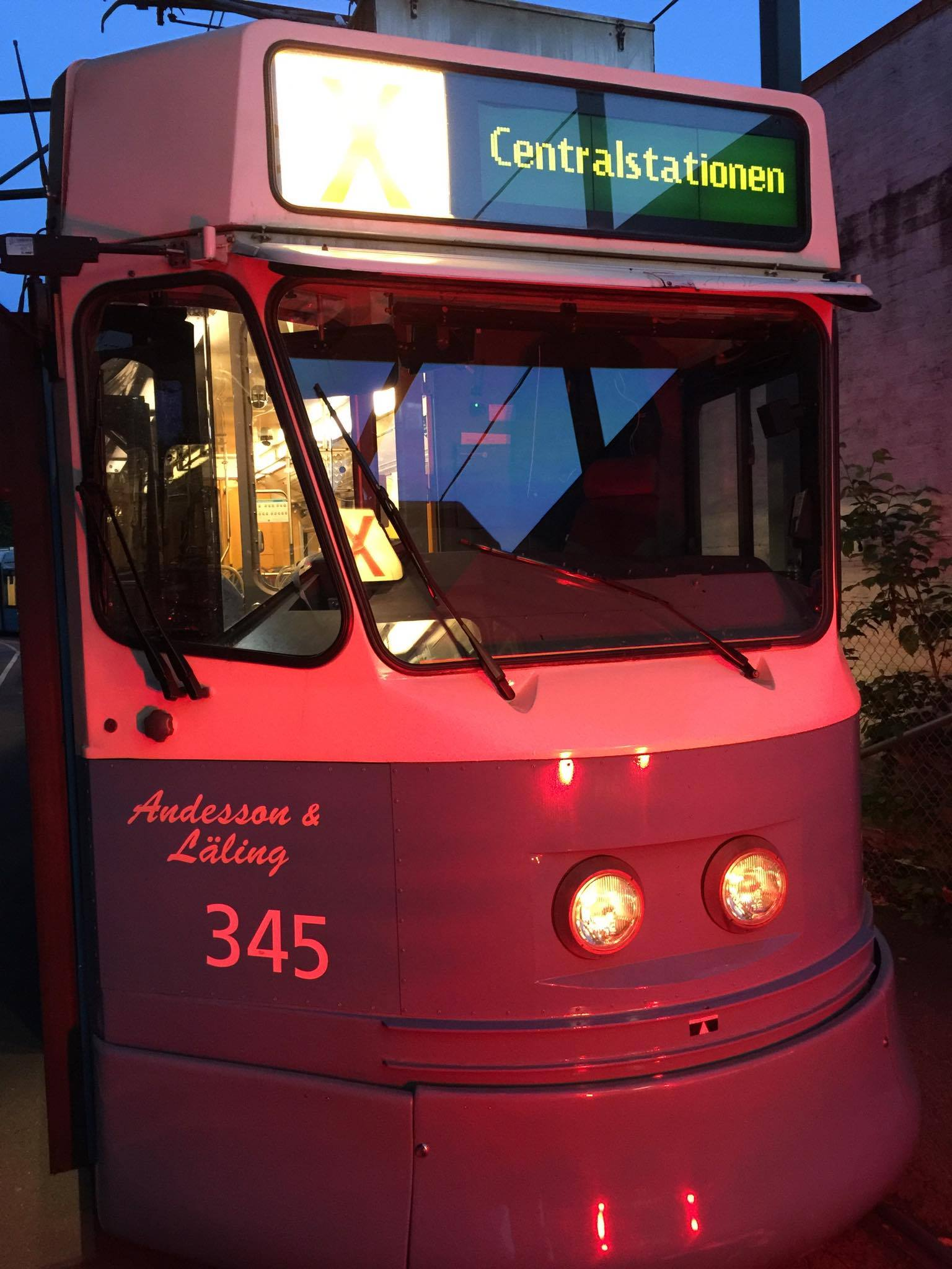 Tram in Gothenburg, Sweden